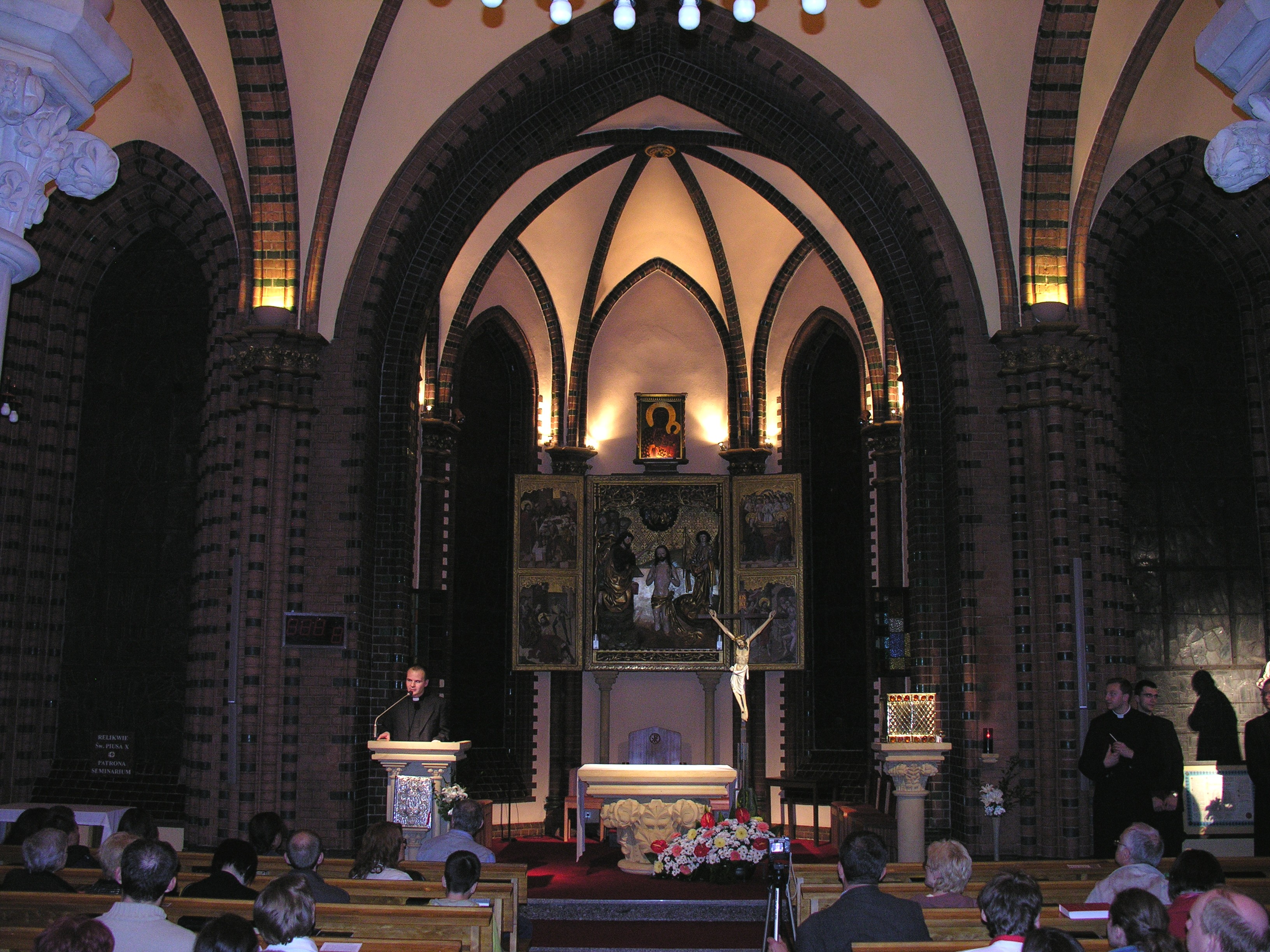 Kaplica w Seminarium Duchownym we Wrocławiu